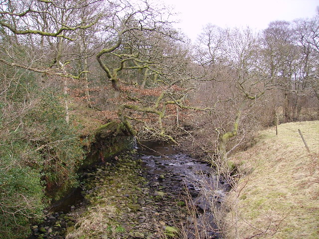 River Hindburn from Stairend Bridge. In between Botton and Lowgill